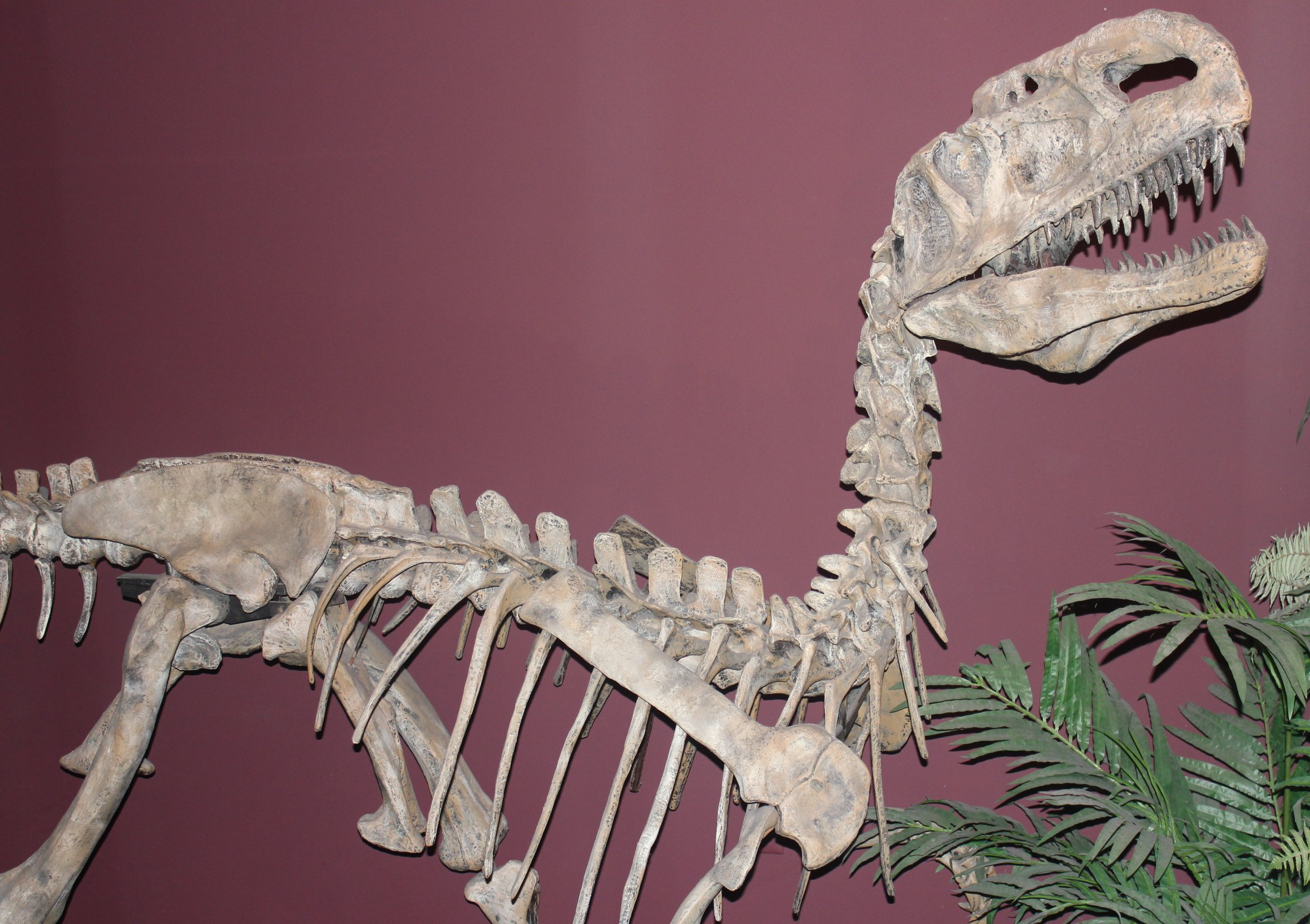 Bones and remains of prehistoric animals A replica skeleton of Monolophosaurus, a predator of the Jurassic Period.